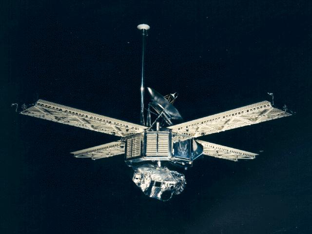 Mariner 6 and 7 spacecraft